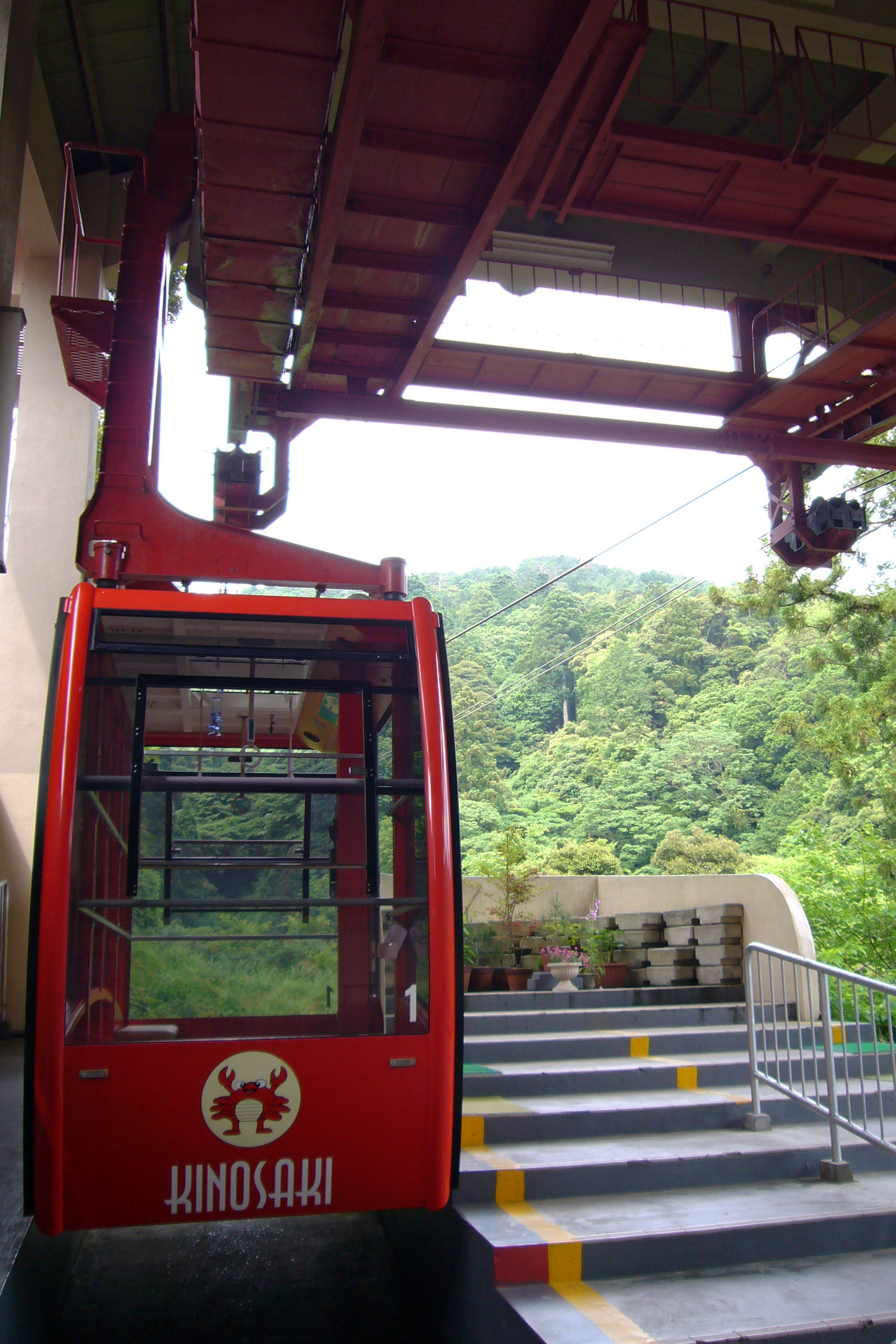 Kinosaki Ropeway, Toyooka, Hyogo prefecture, Japan